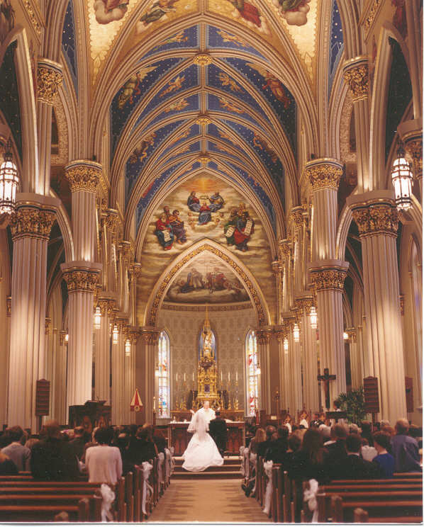 Wedding at Basilica of the Sacred Heart in Notre Dame, IN